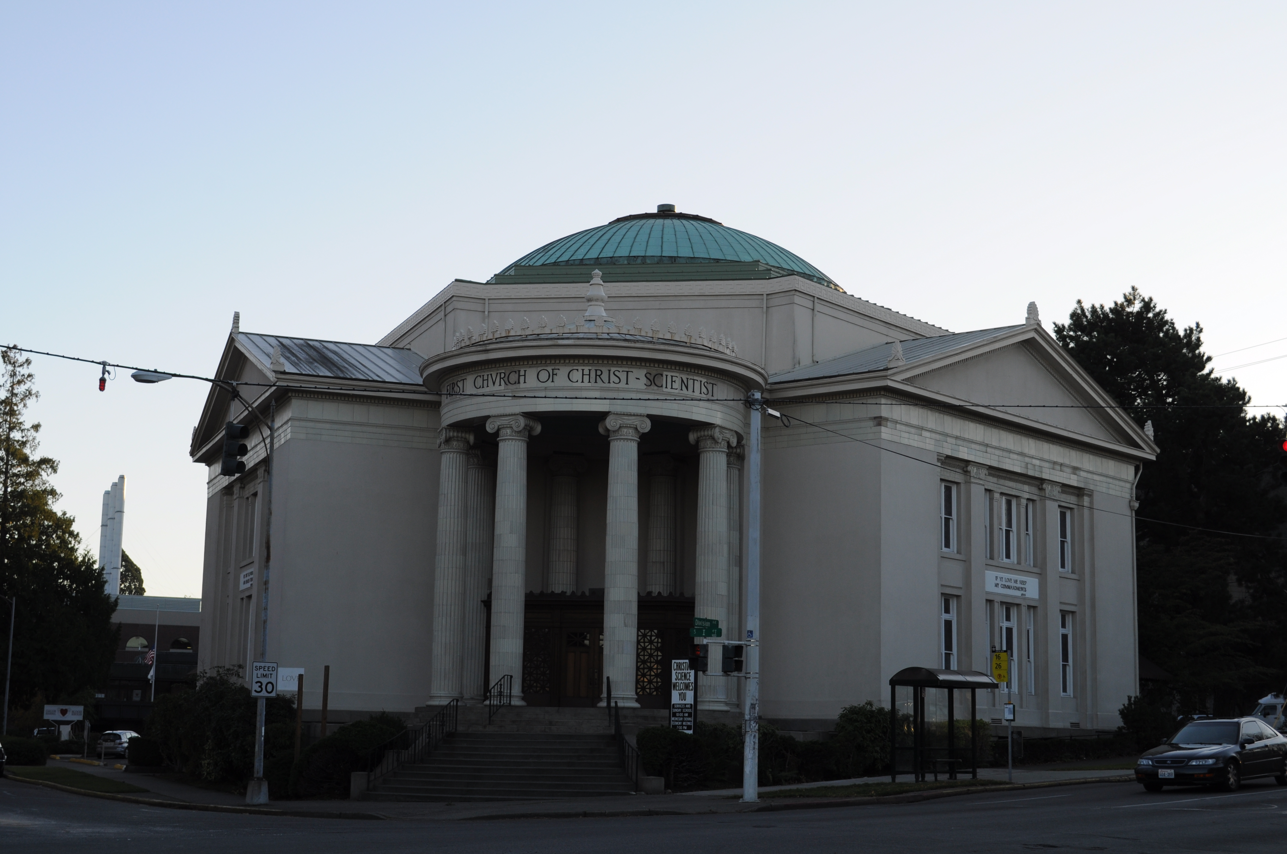 First Church of Christ Scientist, across the street from Wright Park, Tacoma, Washington.